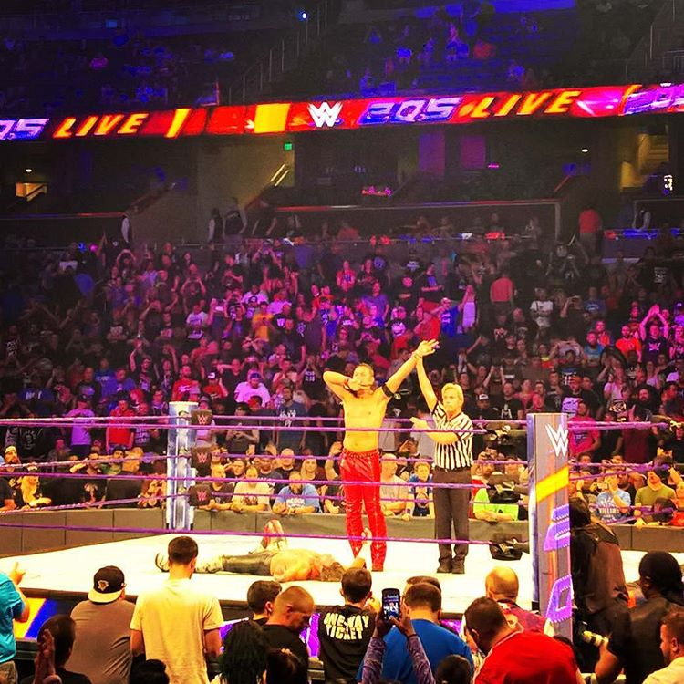 WWE's attempt to get the crowd to stay after #Smackdown #SmackdownLive #SDLive for #205Live didn't work, and there were plenty of empty seats at the end of it, but those who left early obviously decided watching #DolphZiggler Vs. the debuting #ShinsukeNa